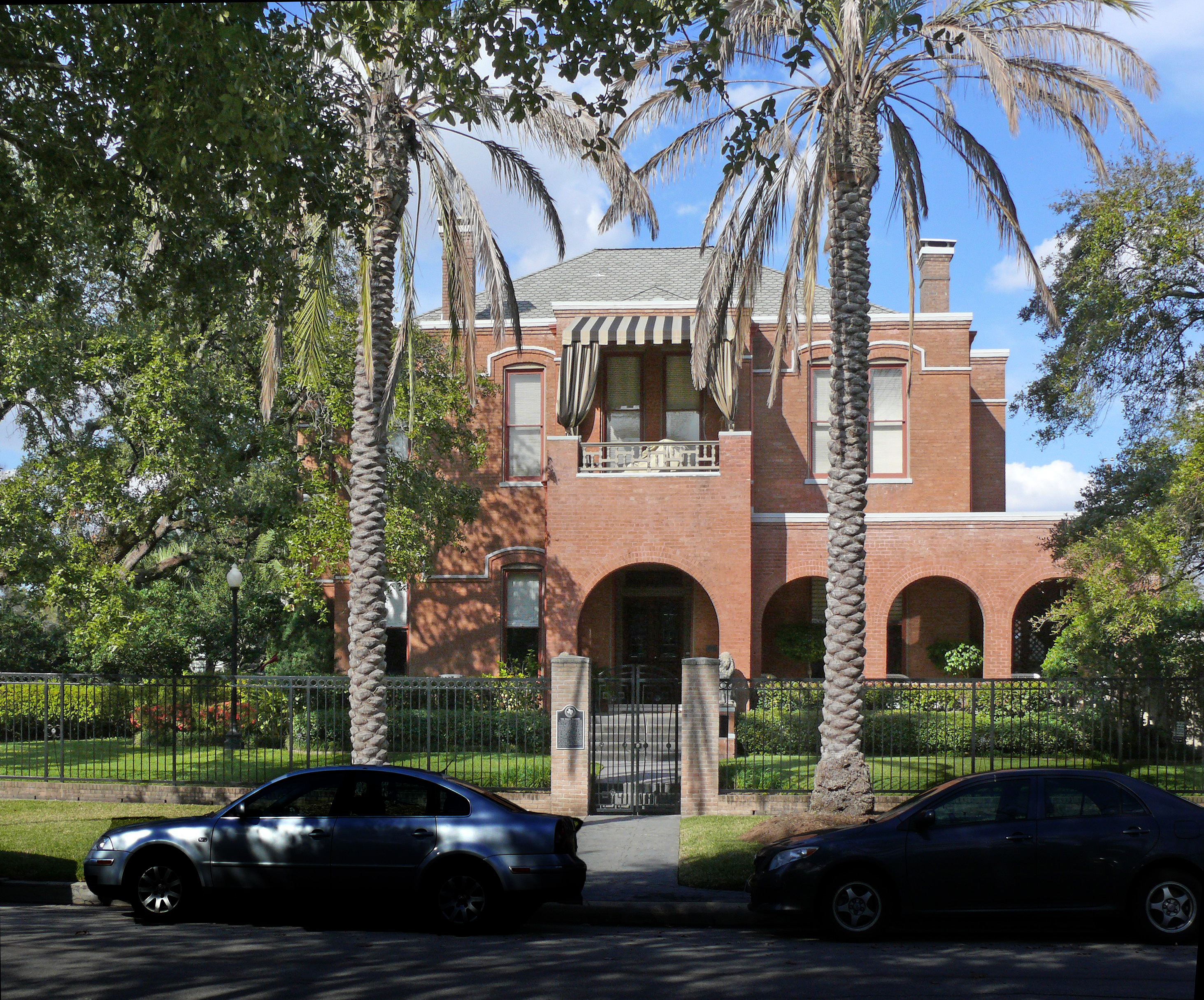 The Waldo Mansion — of J. P. Waldo, in the Montrose district of Houston, Texas. J. P. Waldo, a Confederate veteran, settled in Houston after the Civil War. He married Mary Virginia Gentry, daughter of railroad promoter Abram Gentry. Waldo soon became a prosperous railroad executive. In 1885 J. P. Waldo built the "Waldo Mansion" at the corner of Rusk and Caroline (2 mi. N of current location). A Mansard roof and tower originally topped the large Victorian style house. Elegant millwork adorned the interior. In 1905 Waldo's son Wilmer Waldo moved the house to the present site, then in the fashionable Montrose area on the edge of town. He had it rebuilt without its exterior Victorian detailing and architectural elements. The Waldo family lived here until 1966.